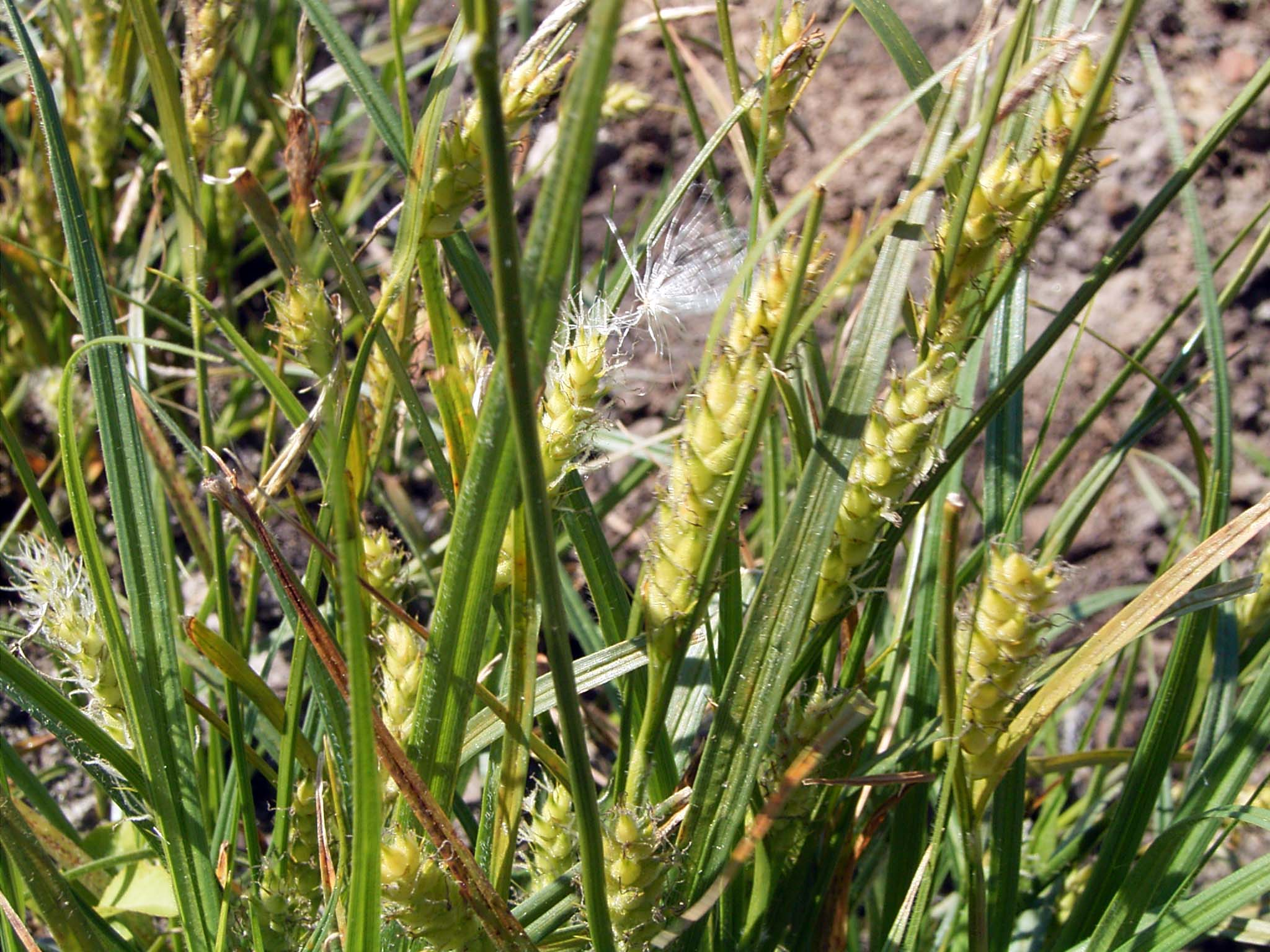 Carex hirta, sandy wayside, Lower Saxony (Germany)